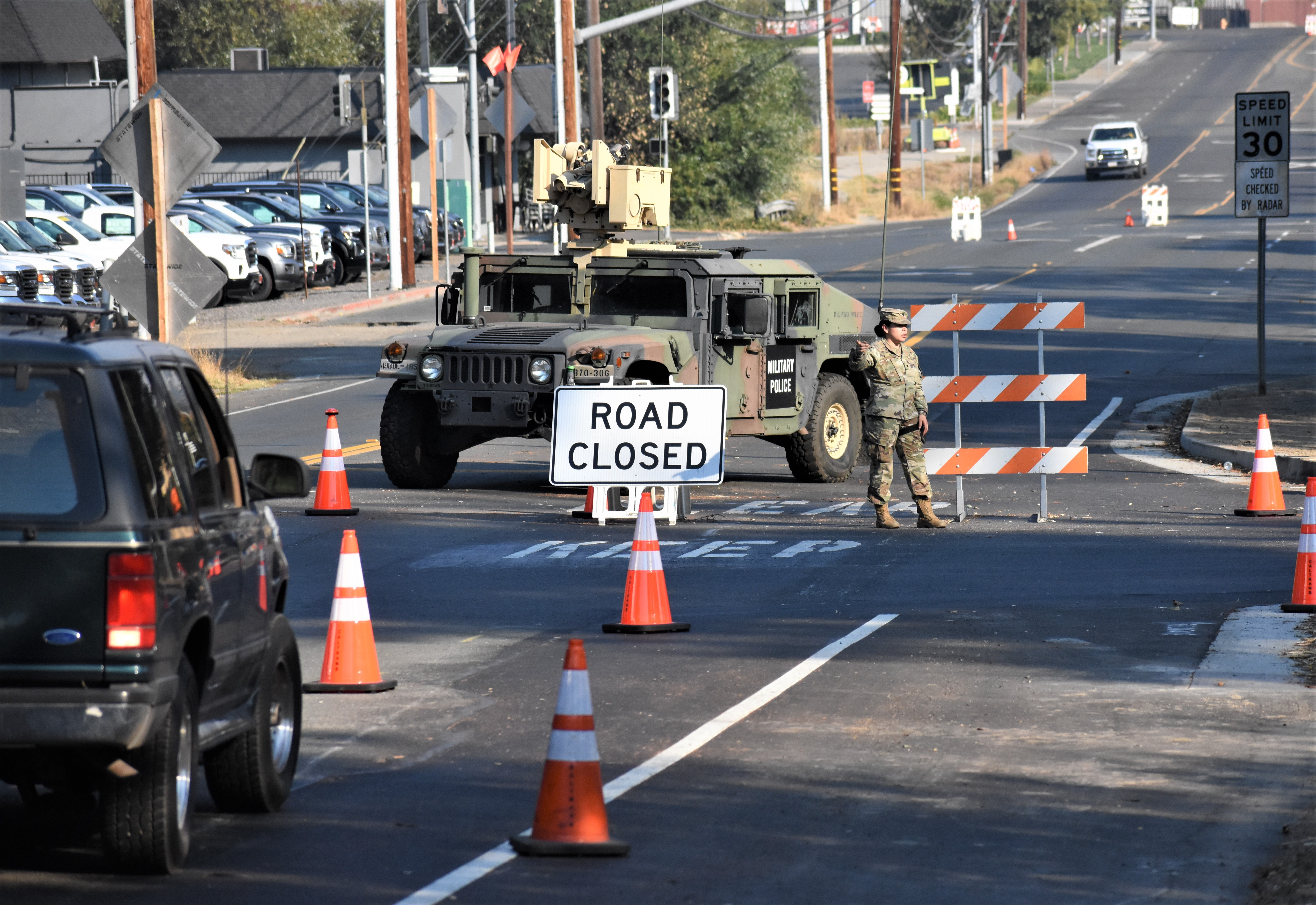 Spc. Maria Medina, Cal Guard soldier with Pittsburg-based 870th Military Police Company block traffic from entering the town of Healdsburg, Oct. 28, 2019 after an evacuation order was given to multiple towns in the vicinity of the Kincade fire in Sonoma County. The California National Guard activated 470 service members to support efforts to fight the fires that have spread over 66,000 acres in the northern part of the state.